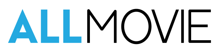 The current logo for AllMovie